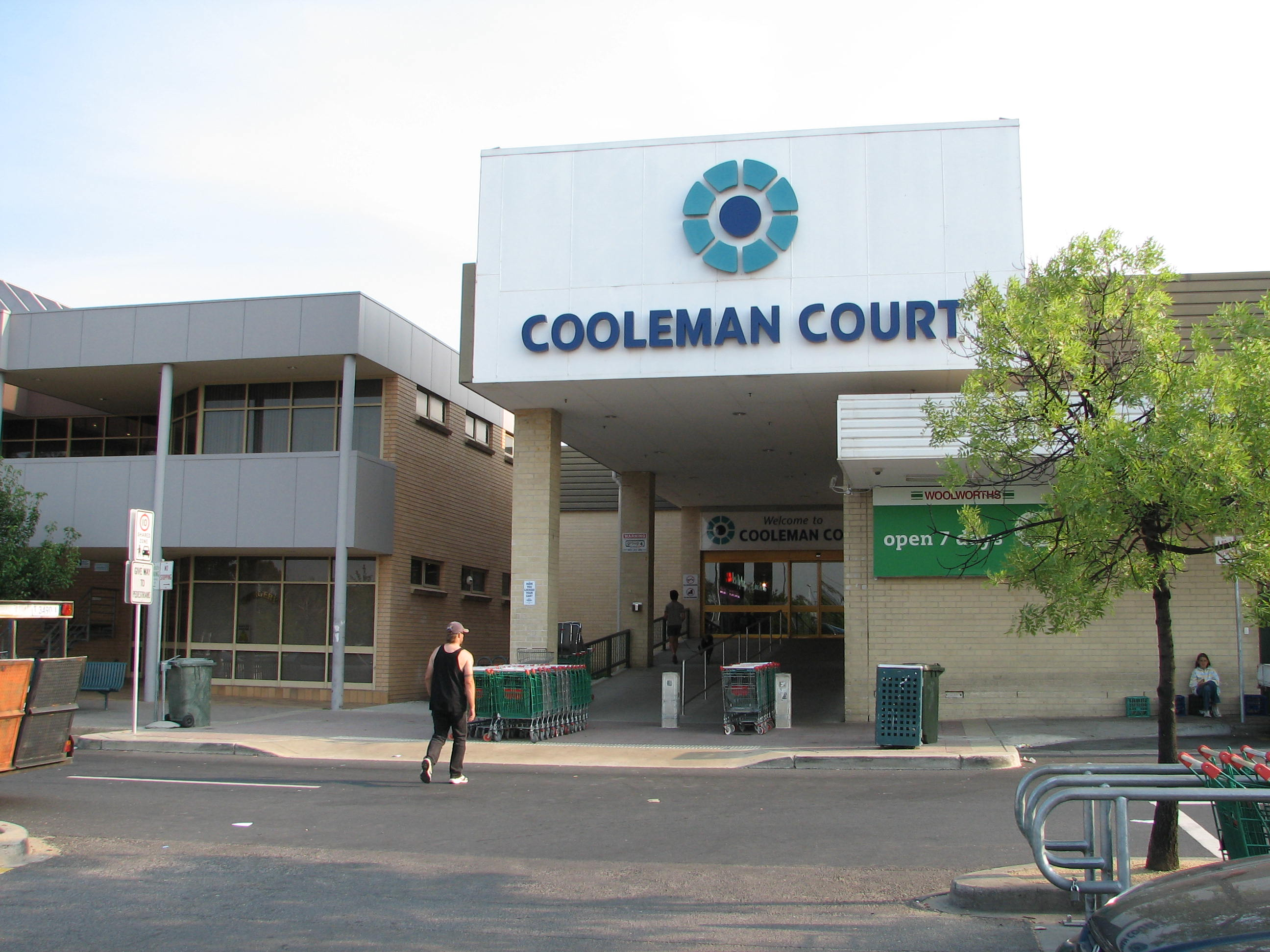 Cooleman Court shopping centre in Weston, Australian Capital Territory. Taken by me on 14th January 2007.